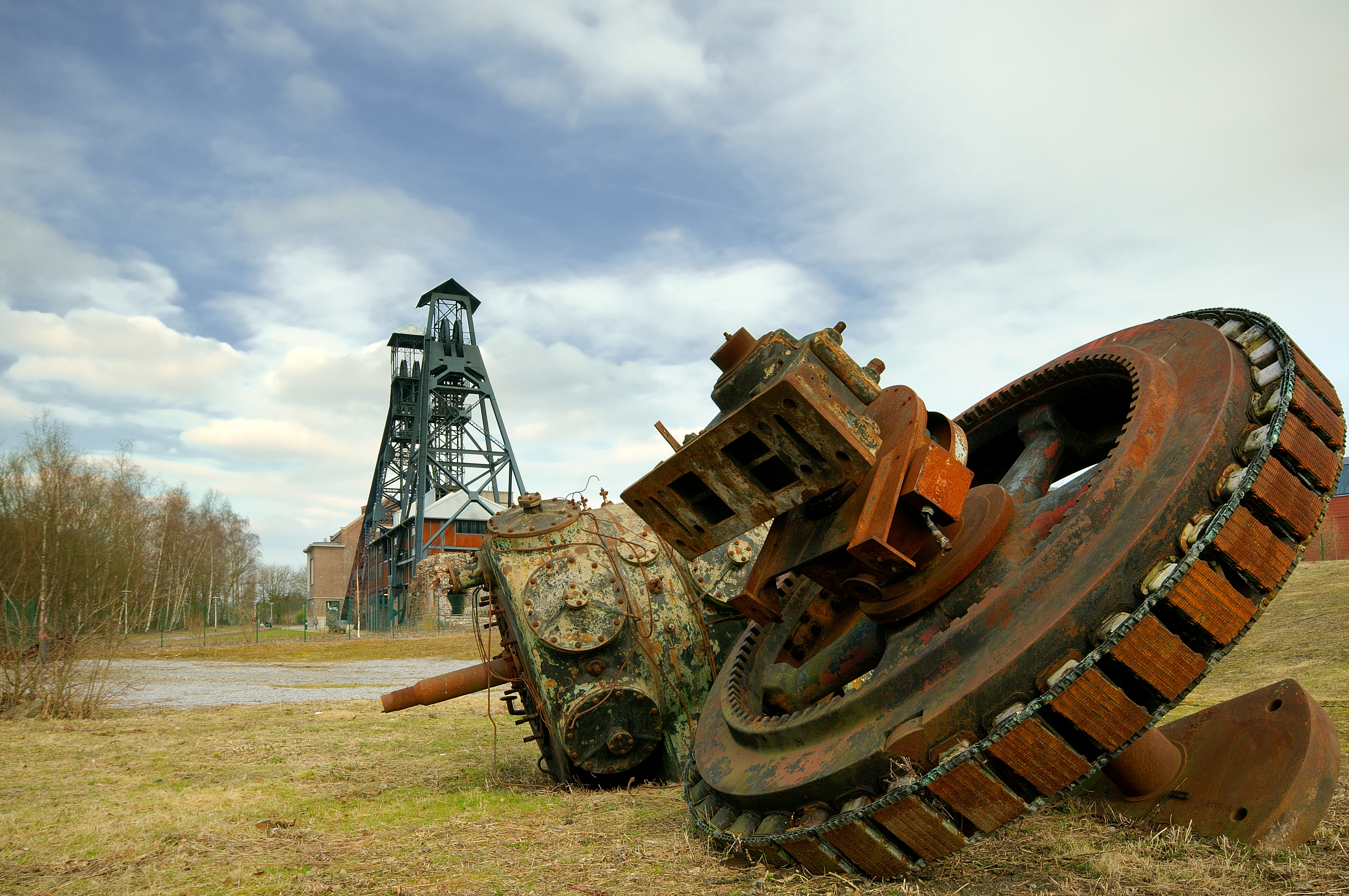 Mining accident of Marcinelle